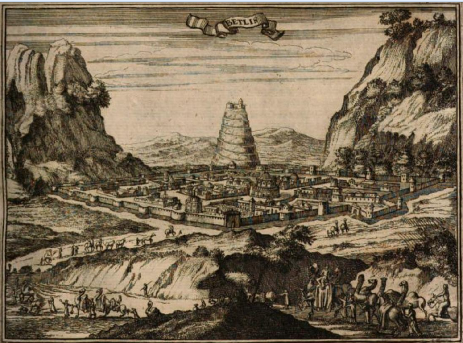 Betlis, as it was imagined by Olfert Dappel